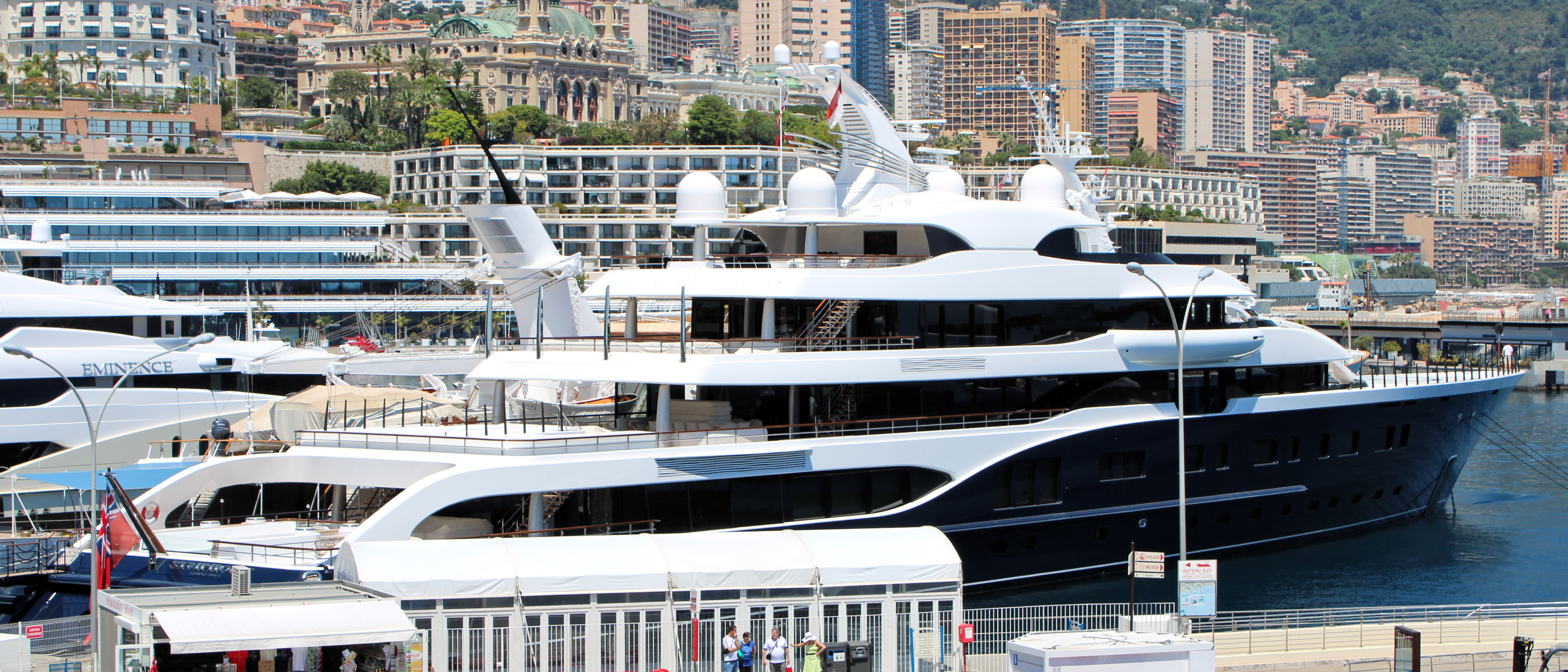 Symphony (ship, 2015) in Monaco